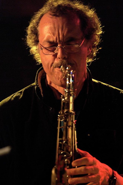 Karlheinz Miklin playing Saxophon